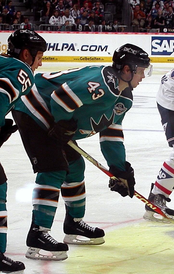 John McCarthy, Ice hockey player from USA, forward